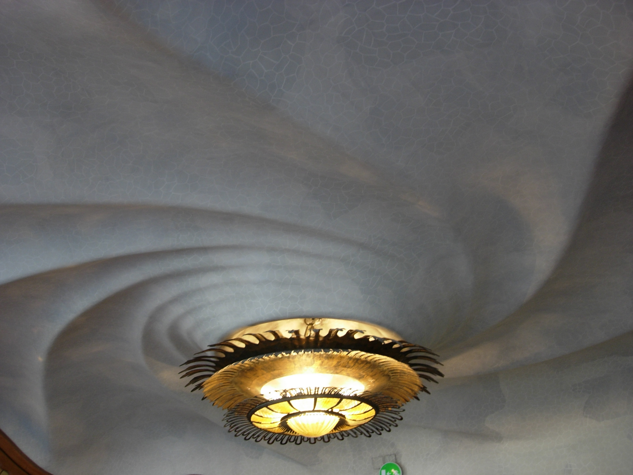 Flush mount ceiling light in Casa Battló